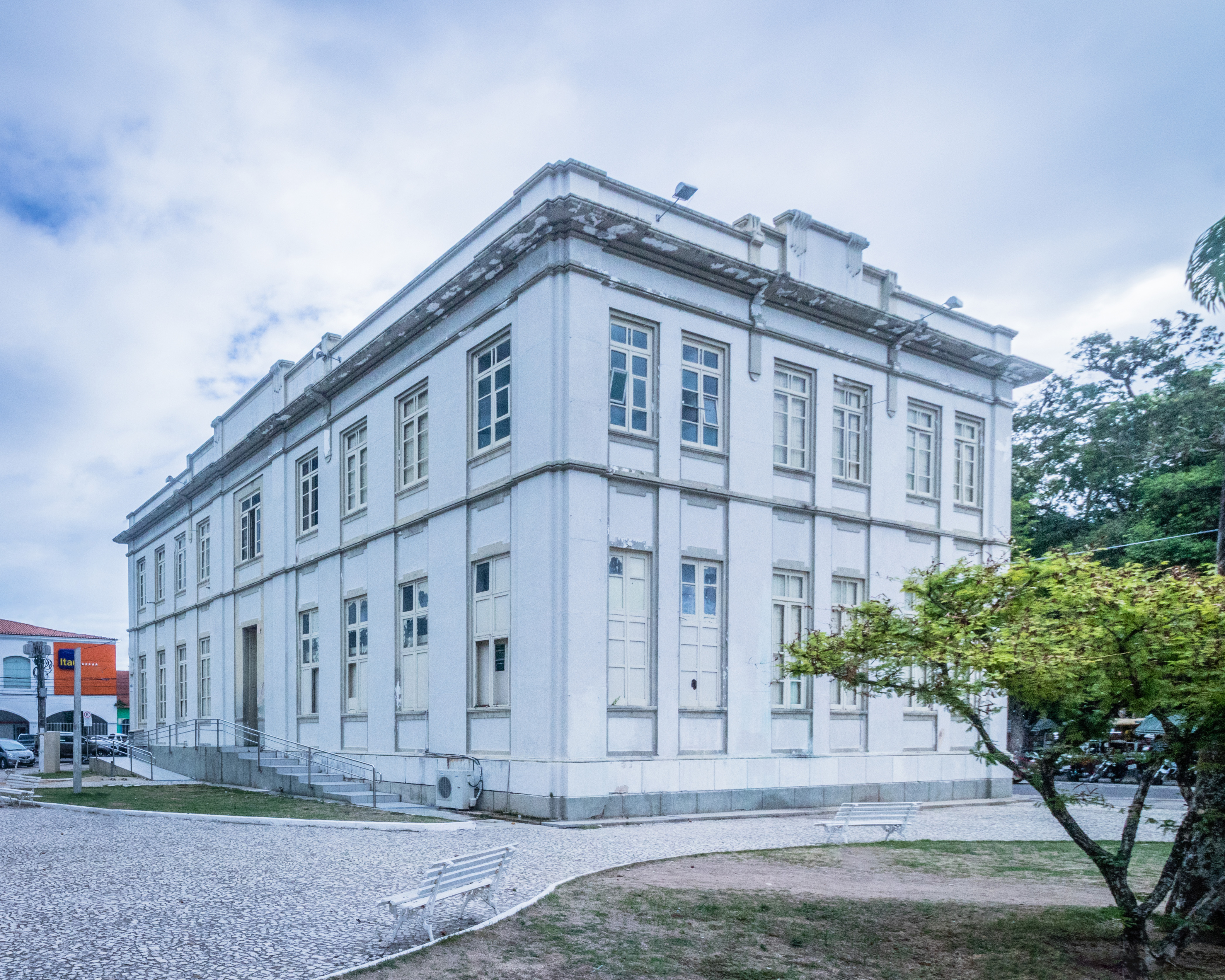 City Hall of Aracaju (Câmara Municipal de Aracaju), Centro, Aracaju, Sergipe. Originally built as the Palácio Gracho Cardoso.